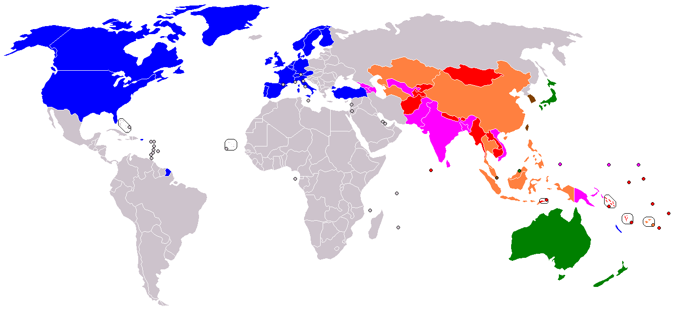 Asian Development Bank members with Developing stage marking